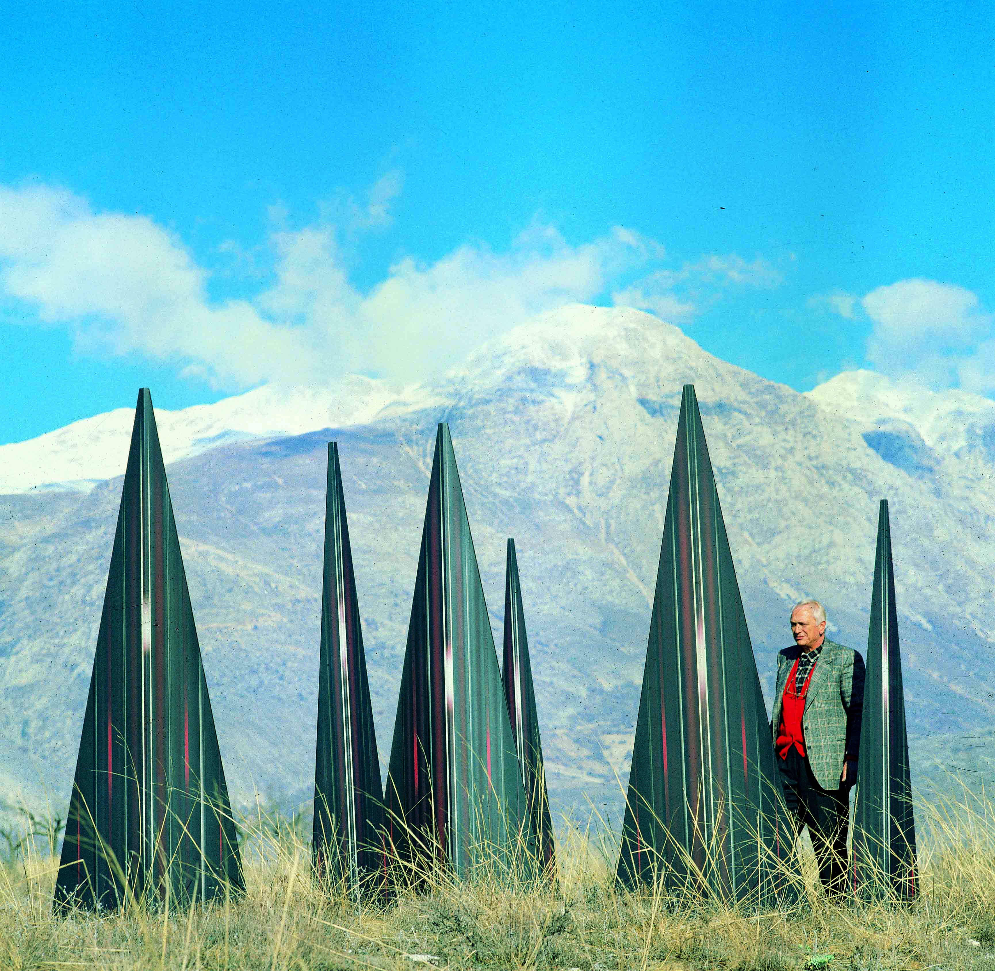 Pasquale Di Fabio